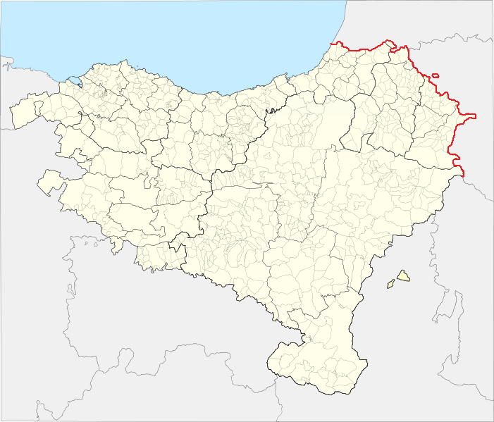 Border of the Basque Country and Gascony